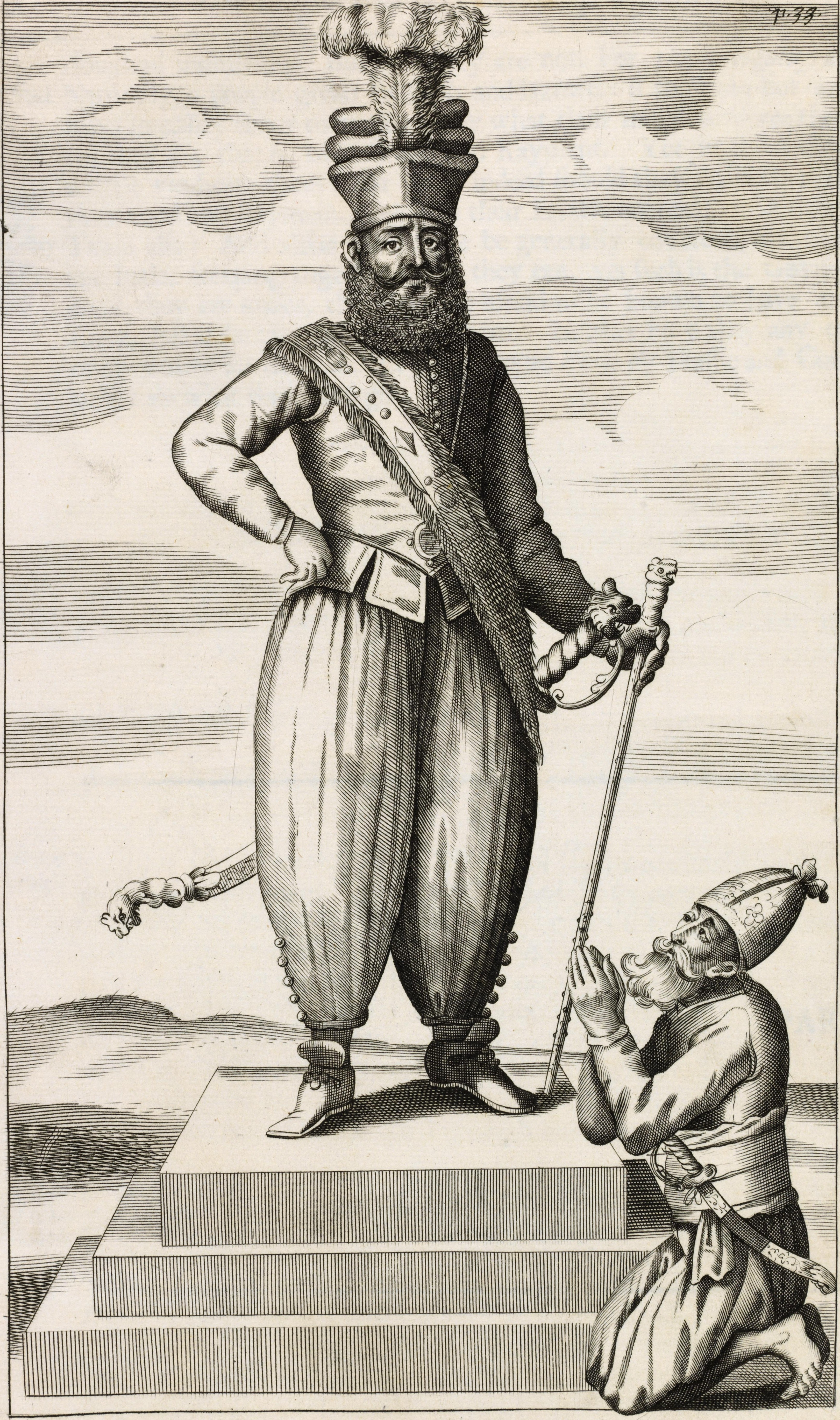 Portrait of King Rajasingha II of Kandy (1608-1687) (Reign 1635 – 6 December 1687)